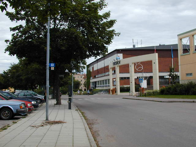 Fyrishov, sports complex in Uppsala